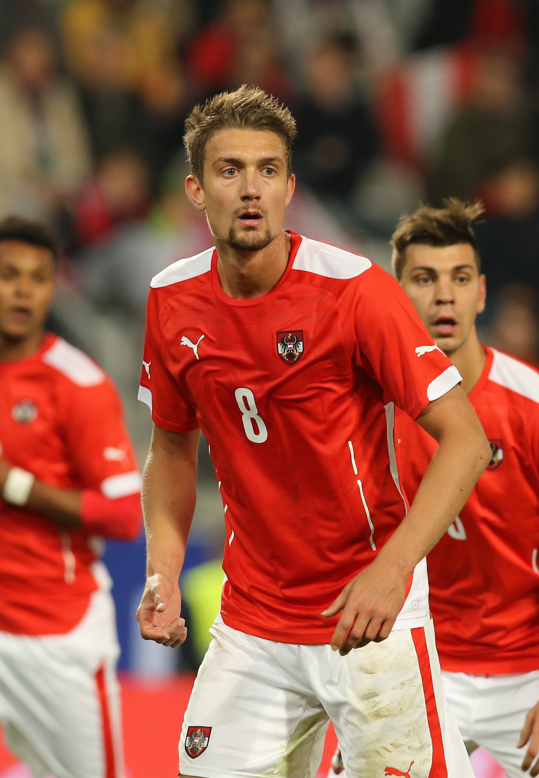 Austria - Iceland football match in Innsbruck, Austria on 2014-05-30. Austria in red, Iceland in blue.